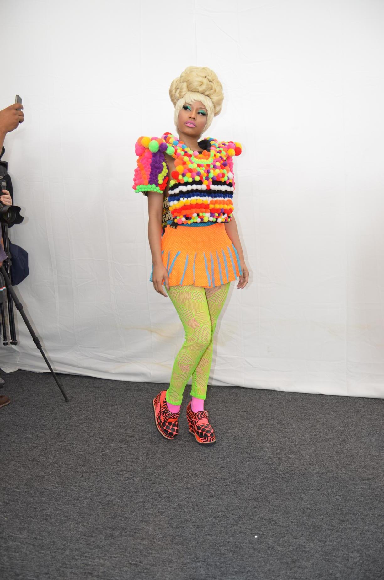 Nicki Minaj poses for photographers